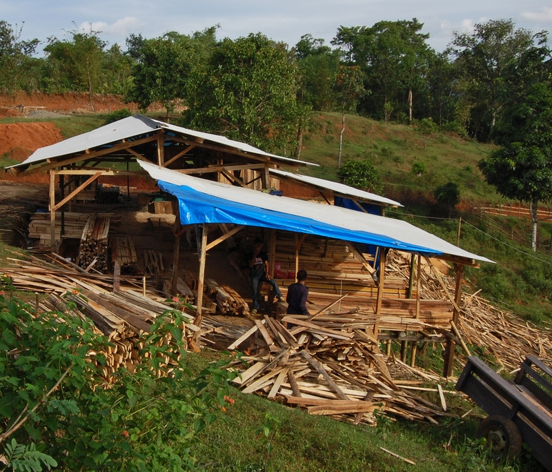 Small sawmill processing Paraserianthes falcataria timber. Bogor, West Java, Indonesia